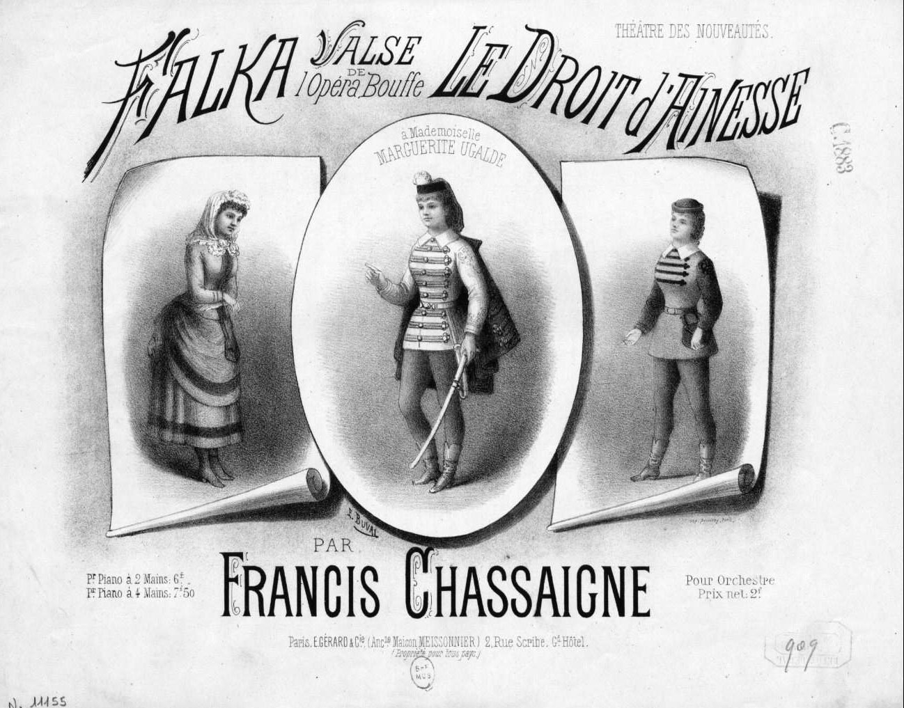 Cover of the score for "Falka's Waltz" based on music from the operetta Le droit d'aînesse by Francis Chassaigne